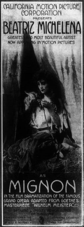 Advertisement for the American drama film Mignon (1915) with Beatriz Michelena, on page 29 of the January 23, 1915 Variety.